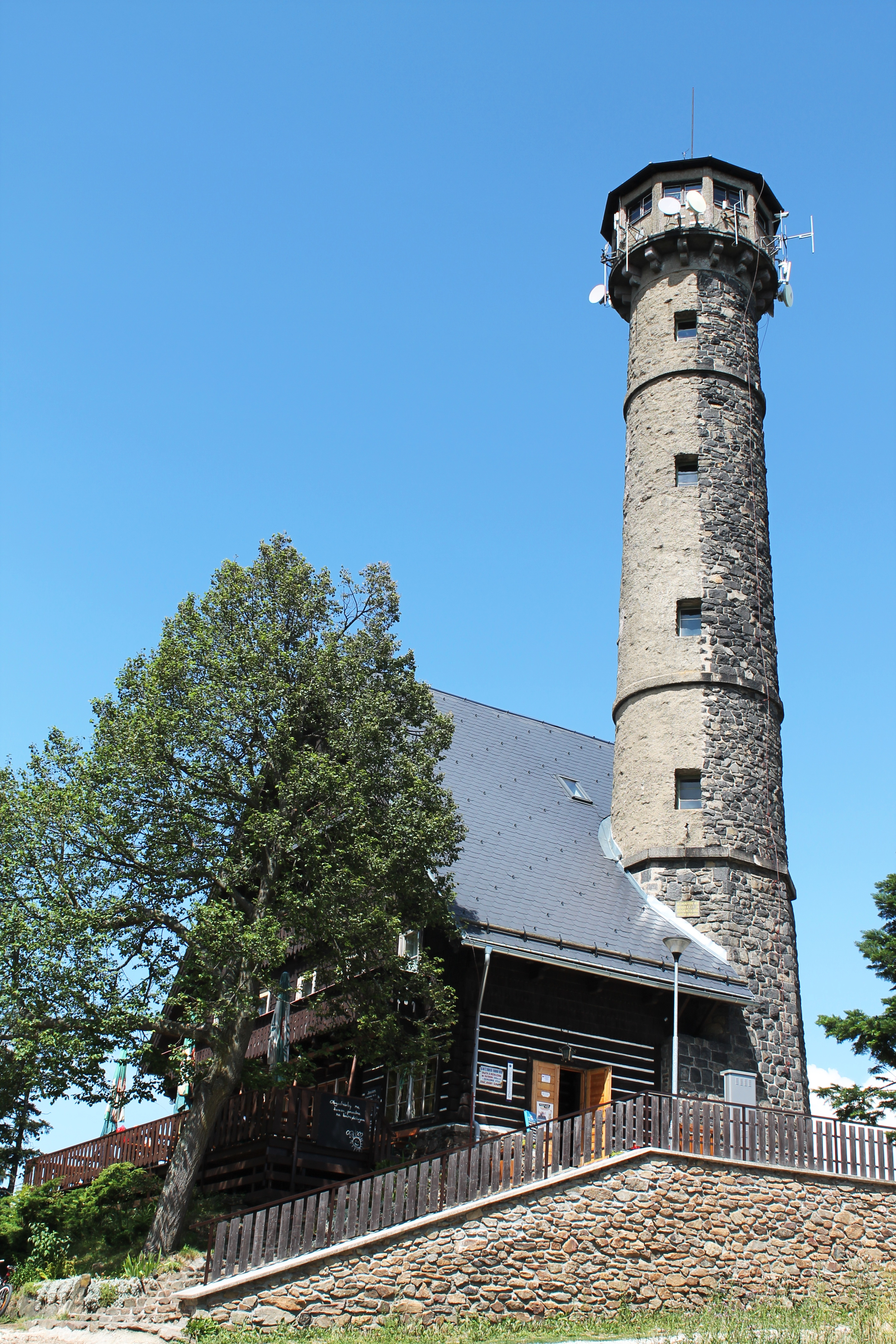 Svatobor hostel and observation tower, Sušice, Klatovy District, Czech Republic - Google Maps - Google Earth